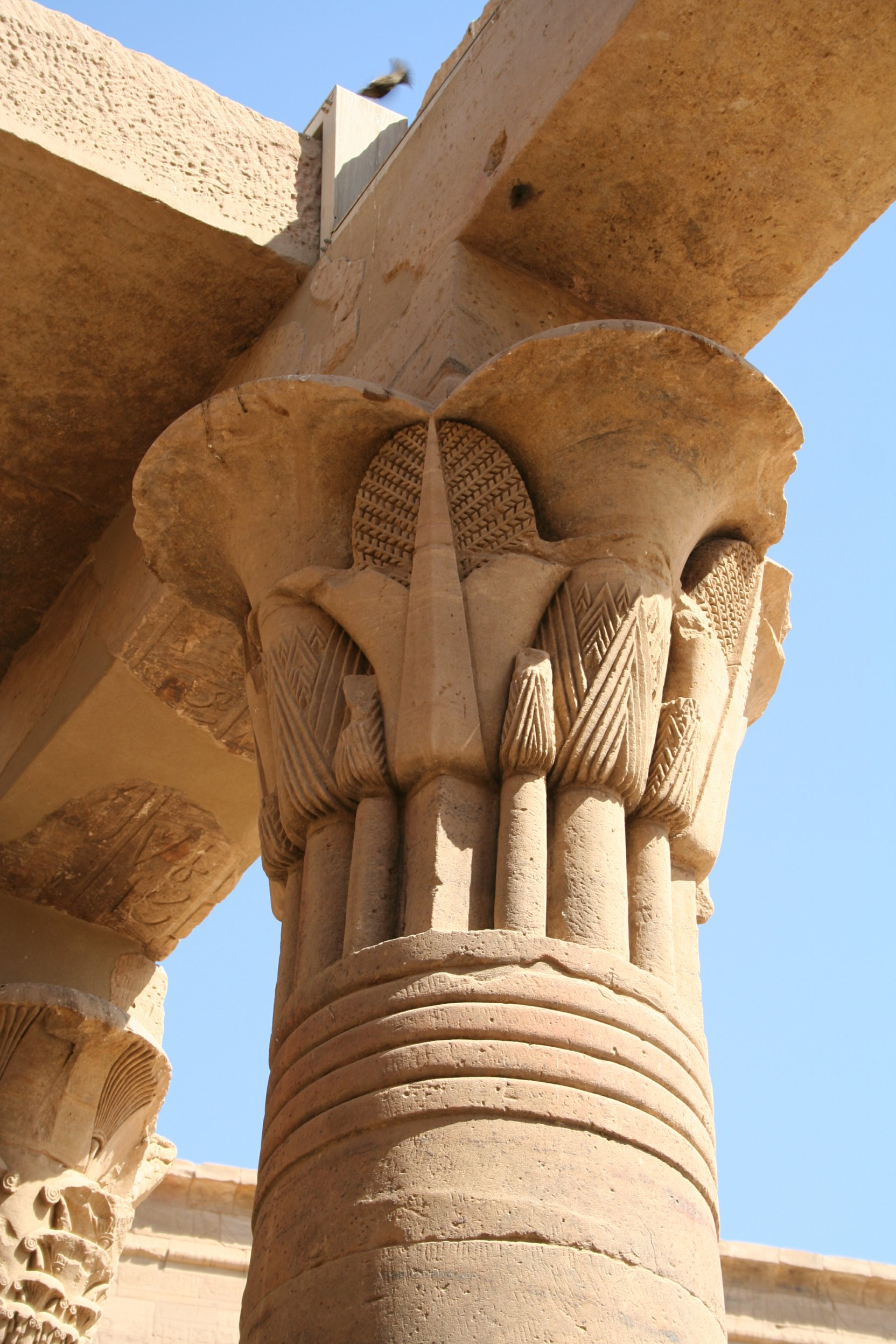 Temple of Isis, Philae - Detail of Column